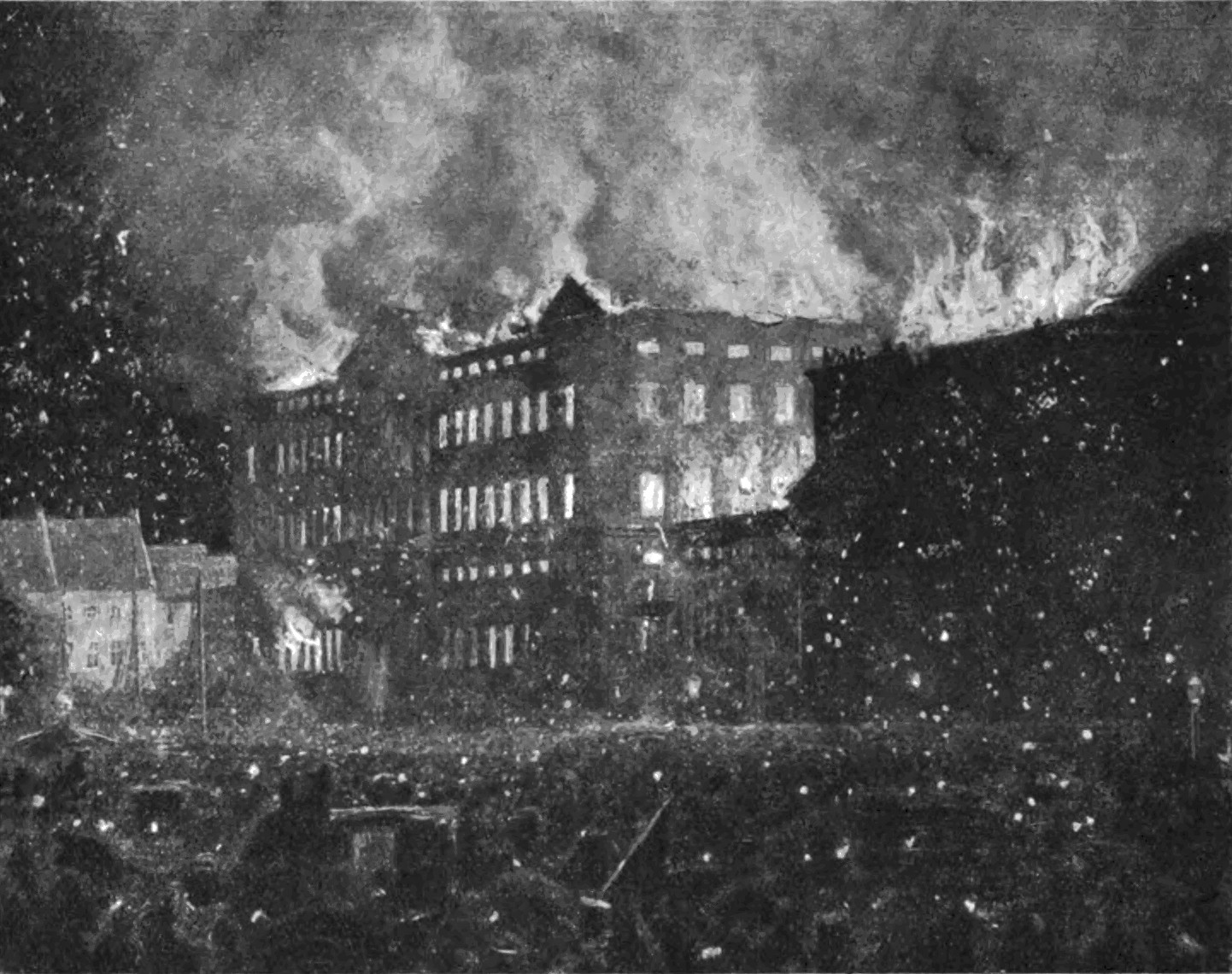 The fire of the second Christiansborg Palace in 1884.